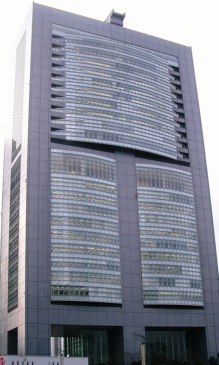 The main office of East Japan Railway Company Shinjuku, Tokyo